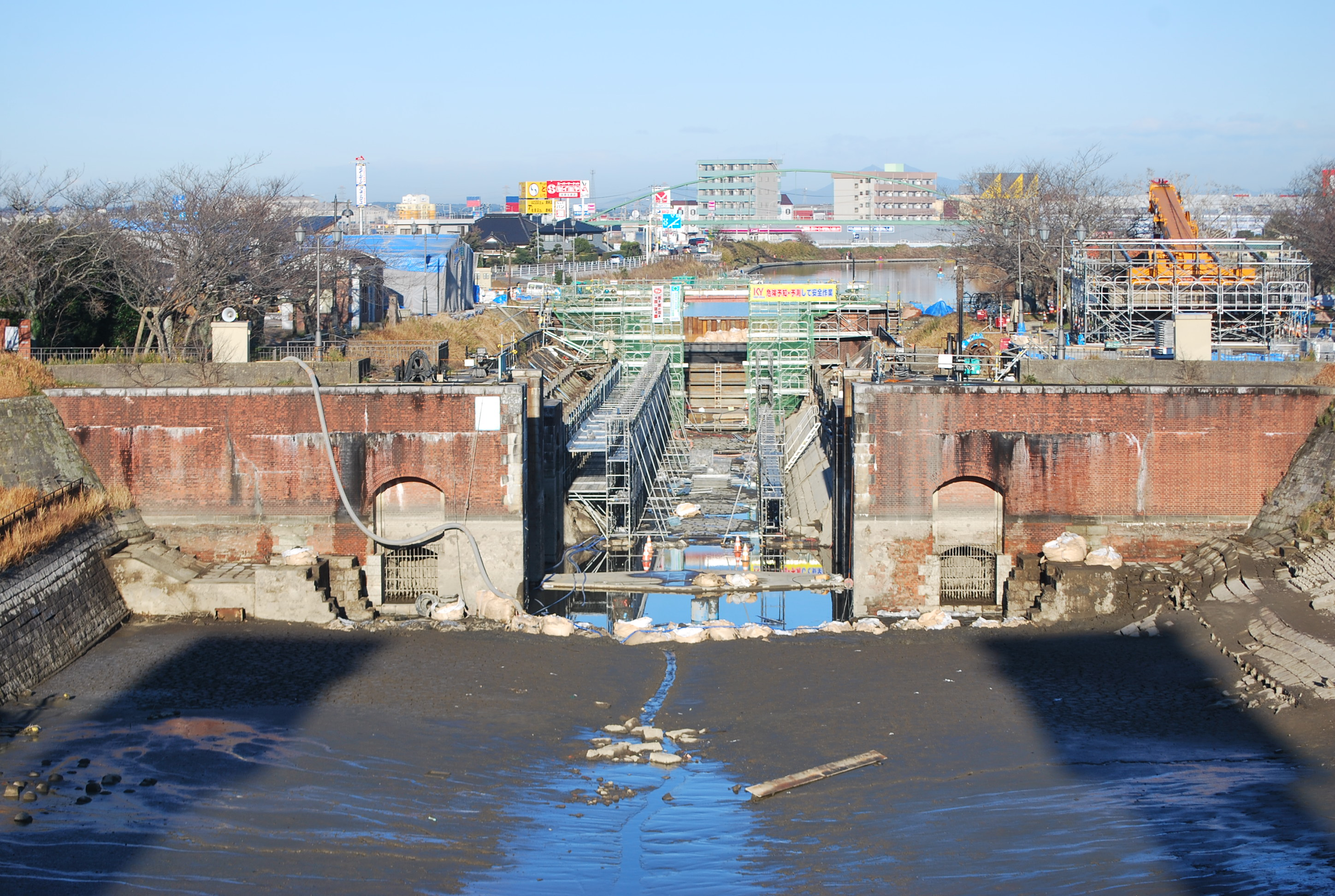 Refurbishment of Yokotone Lock in Inashiki City, Ibaraki Prefecture, Japan